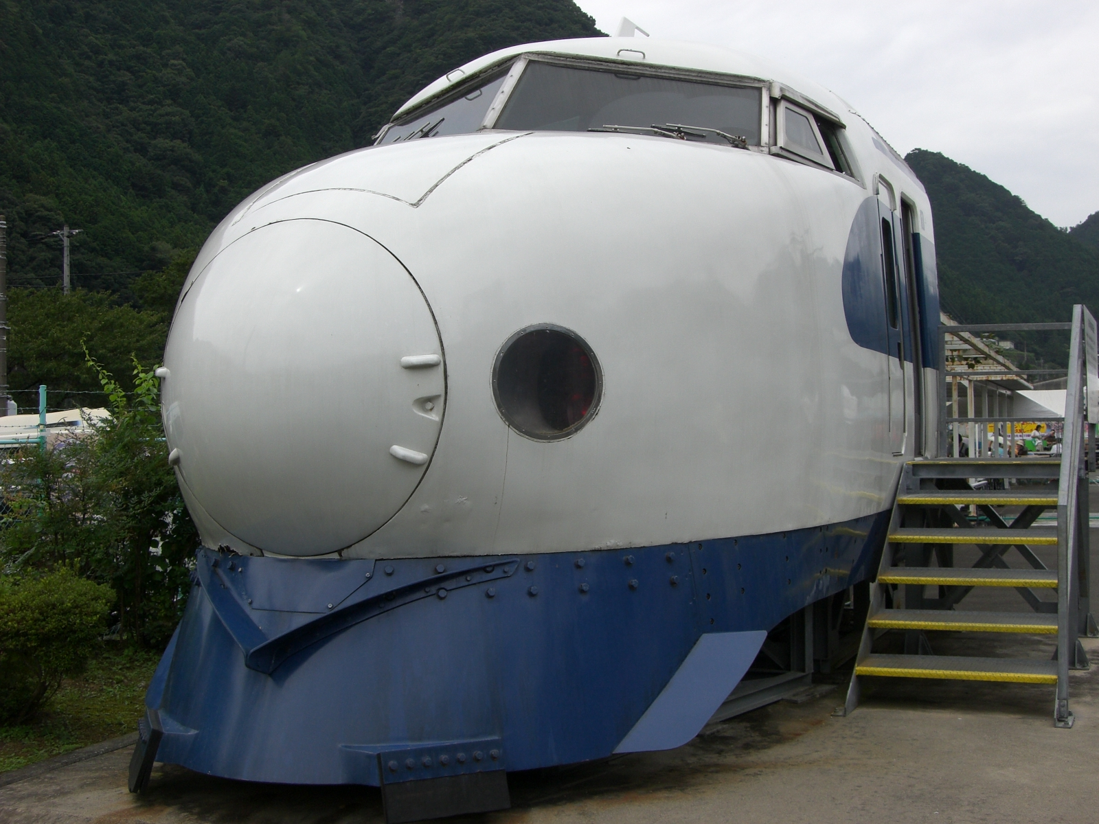 The cab end of 0 series shinkansen car 21-2023 (formerly of set YK22) preserved at Sakuma Rail Park, Japan